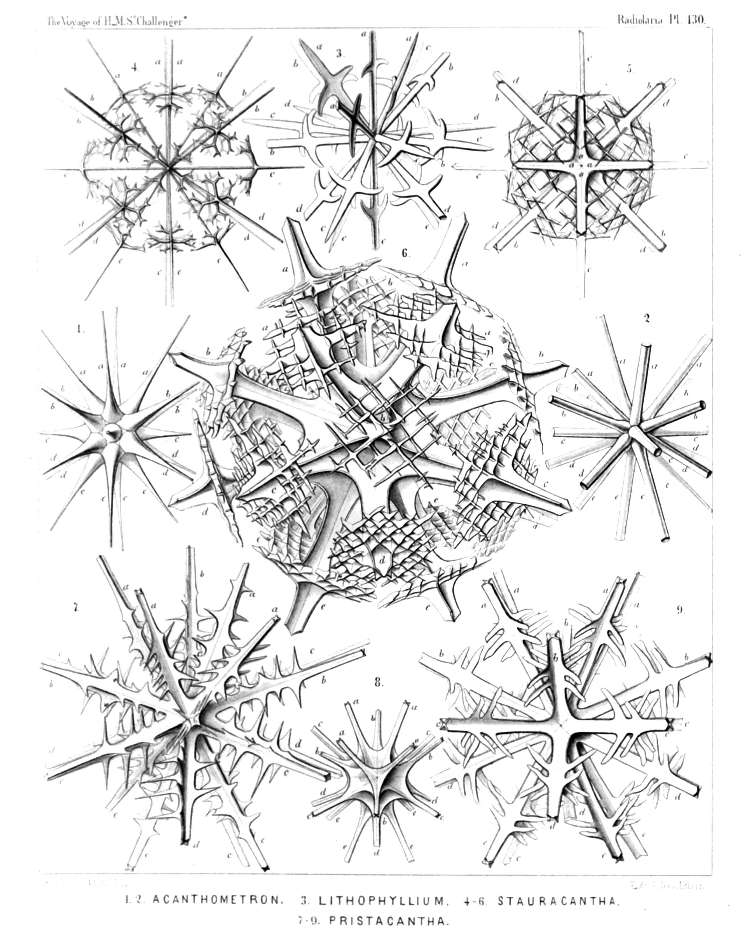 Illustration from Report on the Radiolaria collected by H.M.S. Challenger during the years 1873-1876. Part III. Original description follows: Plate 130. Astrolonchida.Diam.Fig. 1. Acanthometron bulbiferum, n. sp.,×300Fig. 2. Acanthometron cylindricum, n. sp.,×200Fig. 3. Lithophyllium gladiatum, n. sp.,×200Fig. 4. Stauracantha quadrifurca, n. sp.,×300Fig. 5. Stauracantha orthostaura, n. sp.,×200Fig. 6. Phatnacantha icosaspis, n. sp.,×400Fig. 7. Pristacantha polyodon, n. sp.,×300Fig. 8. Pristacantha dodecodon, n. sp.,×300Only the central parts and the leaf-cross.Fig. 9. Pristacantha octodon, n. sp.,×200